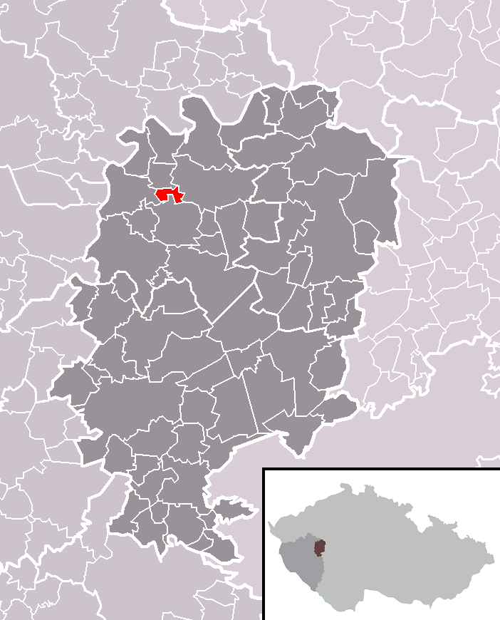 Location of Kamenec municipality within Rokycany District and within identical administrative area of Rokycany as a Municipality with Extended Competence.